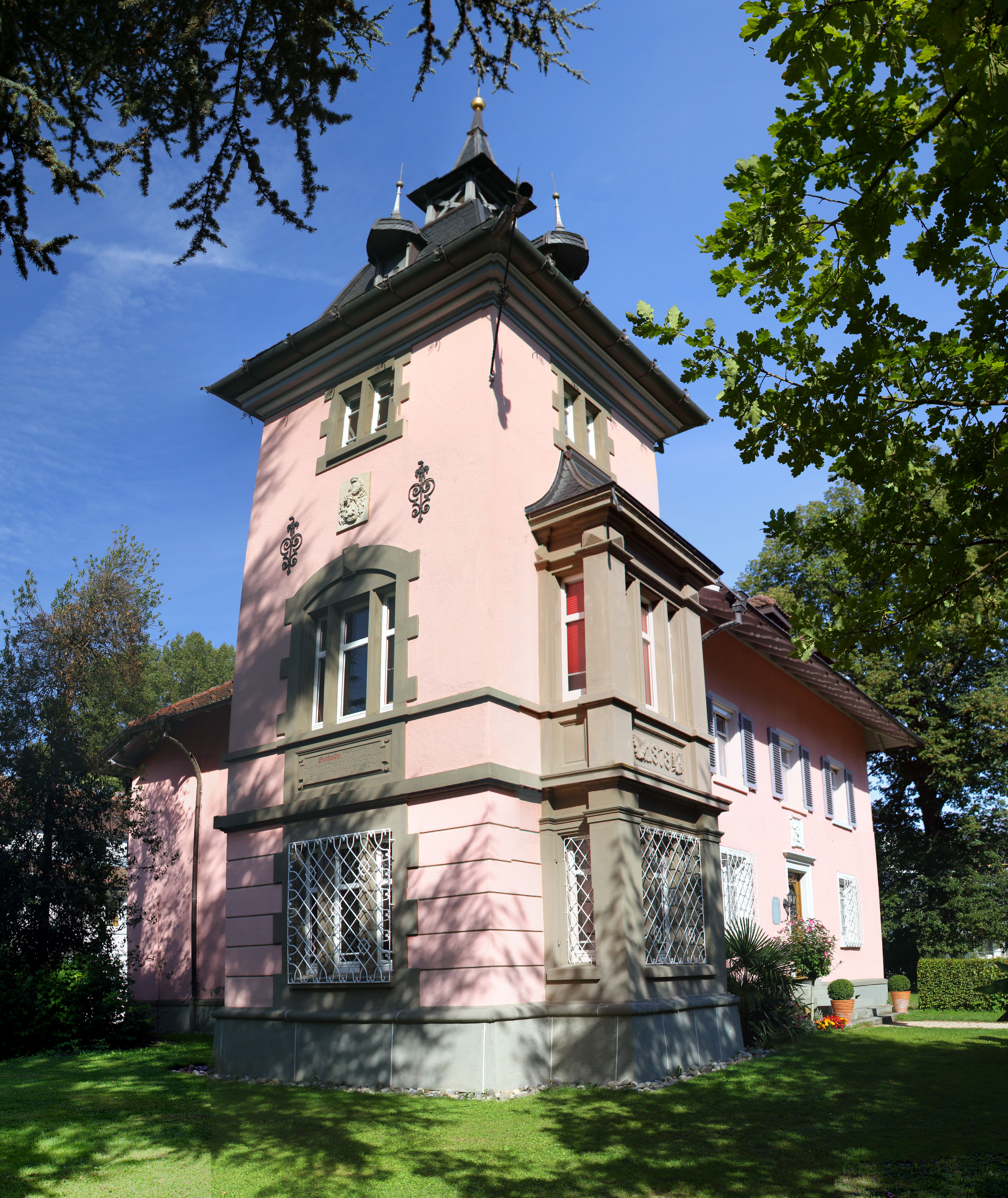 Scheffelchatau, Mettnau peninsula